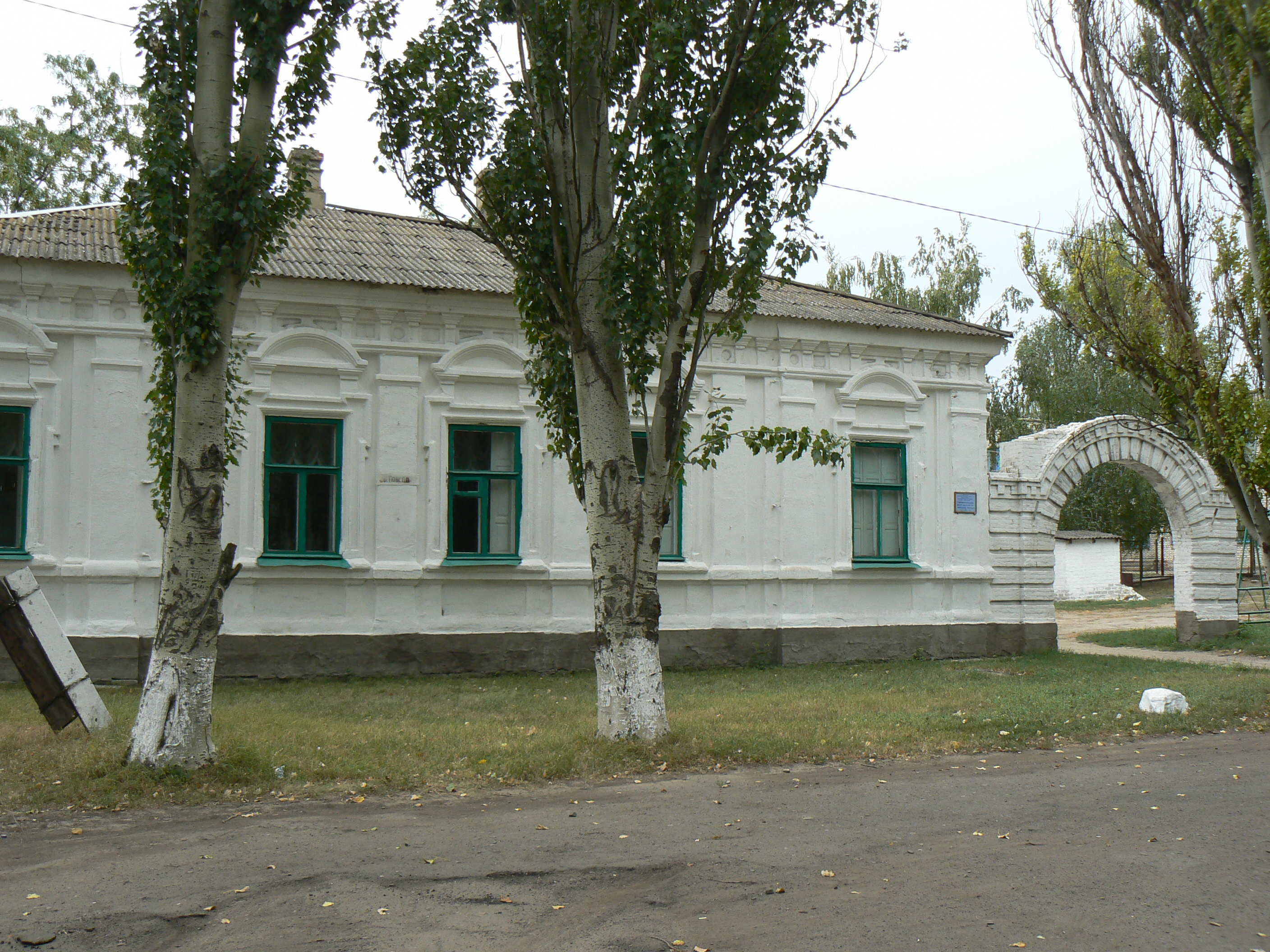 Old greek house with gate